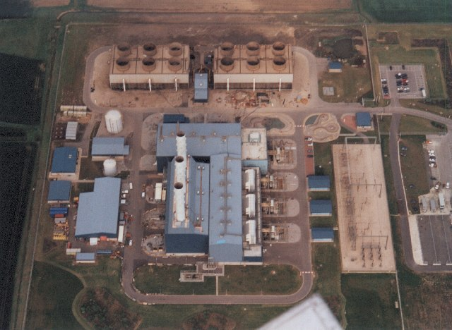 Killingholme Gas Fired Power Station